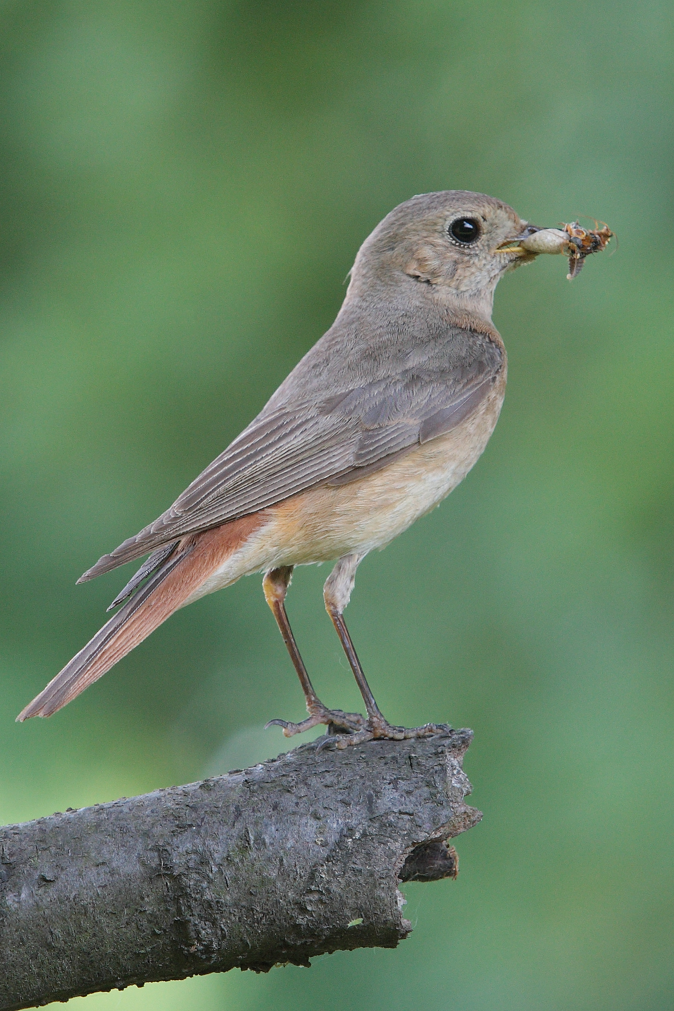 Common Redstart (Phoenicurus phoenicurus) female